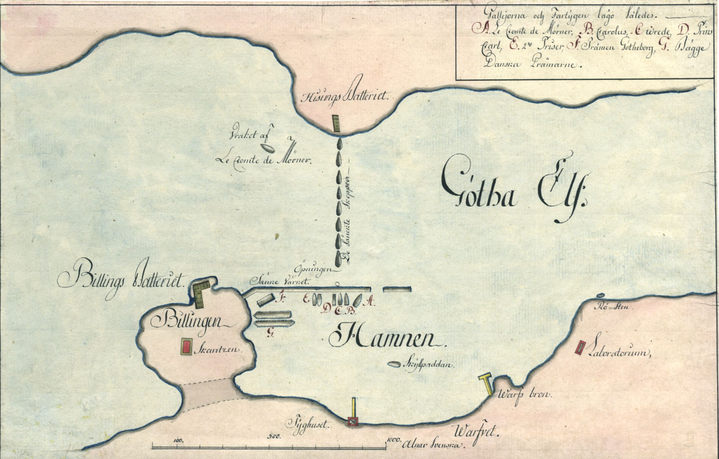 The area around the swedish naval base Nya Varvet in Gothenburg, at the time of the attack from the Danish-Norwegian admiral Tordenskjold in autumn 1719.